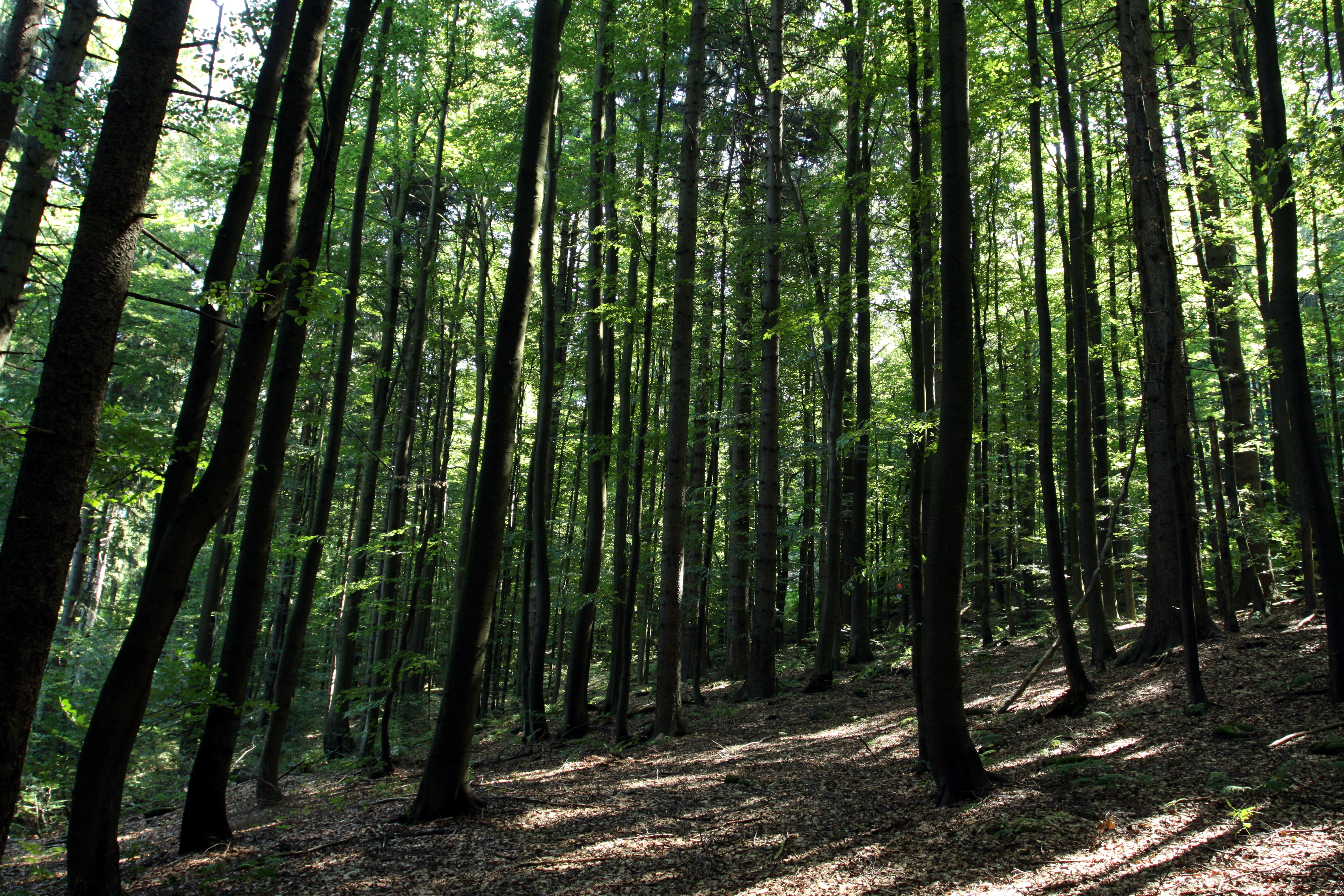 National nature reserve Bystřice near Babylon in Domažlice District, Czech Republic